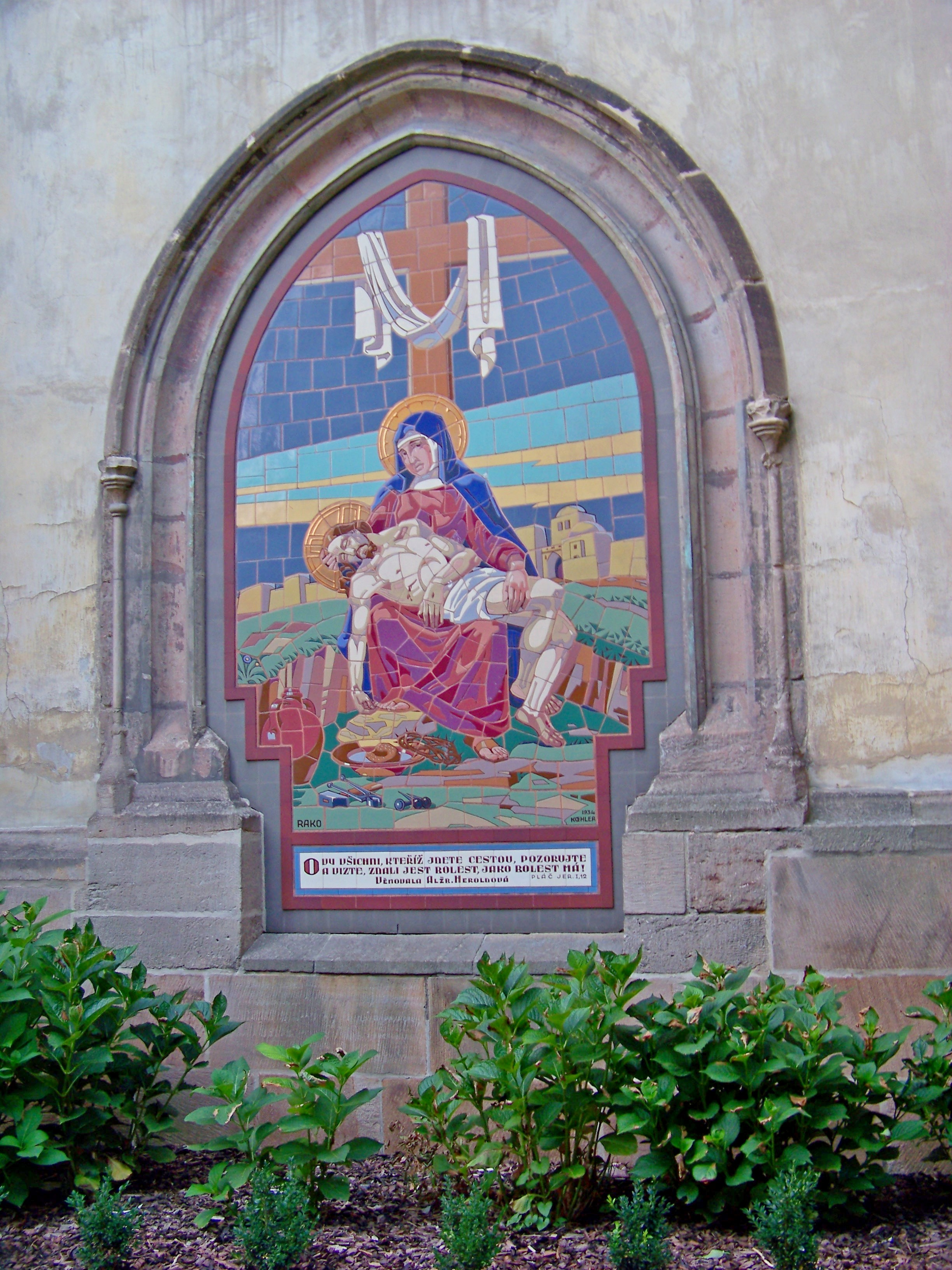 Rakovník I, Rakovník District, Central Bohemian Region, the Czech Republic. Church of Saint Bartholomew, a tile image of Pieta on the south facade.